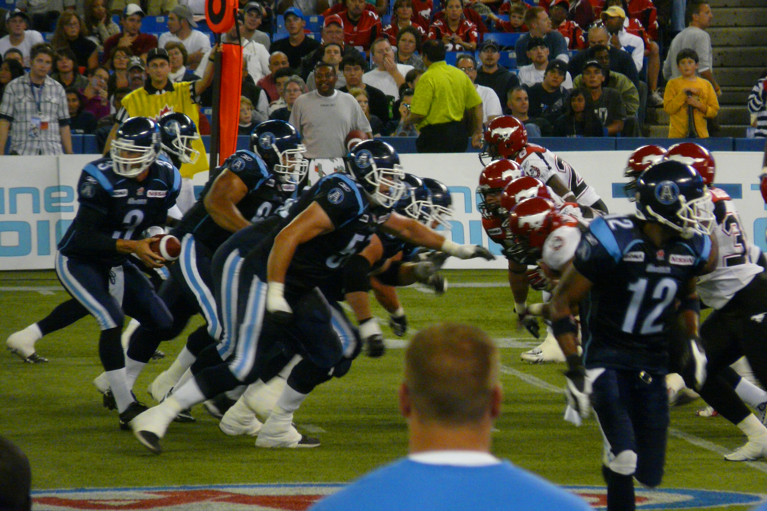 Cody Pickett of the Toronto Argonauts receives the snap and prepares to hand-off the ball.